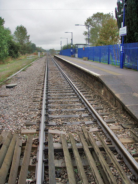 Ascott-under-Wychwood Station